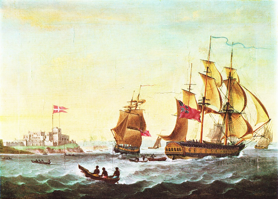 The British marine painter George Webster visited West-Africa around 1800, and did this painting of slave ships at the Danish fort Christiansborg, now in Ghana.